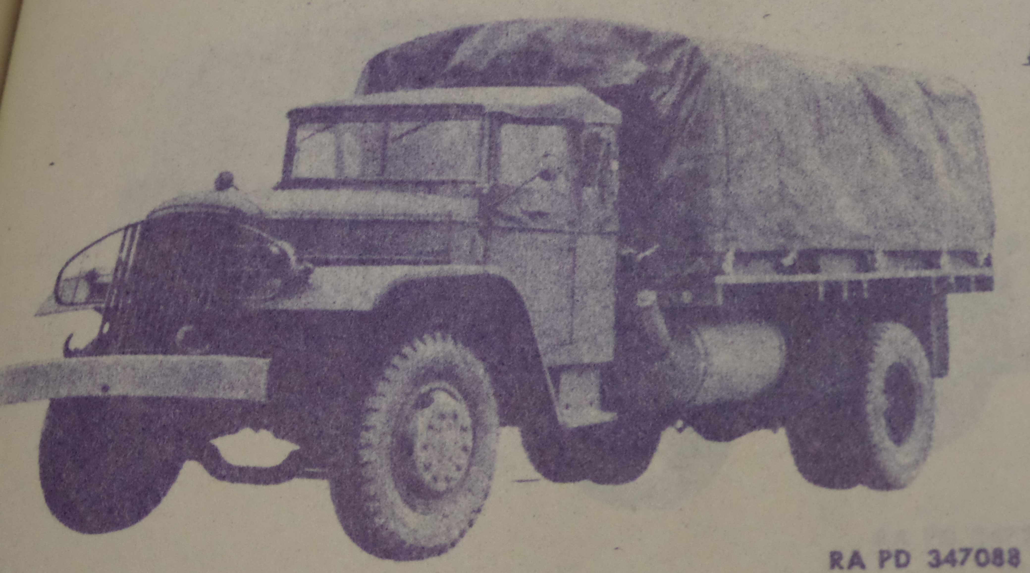 MACK EH 1943 MILITARY PATTERN